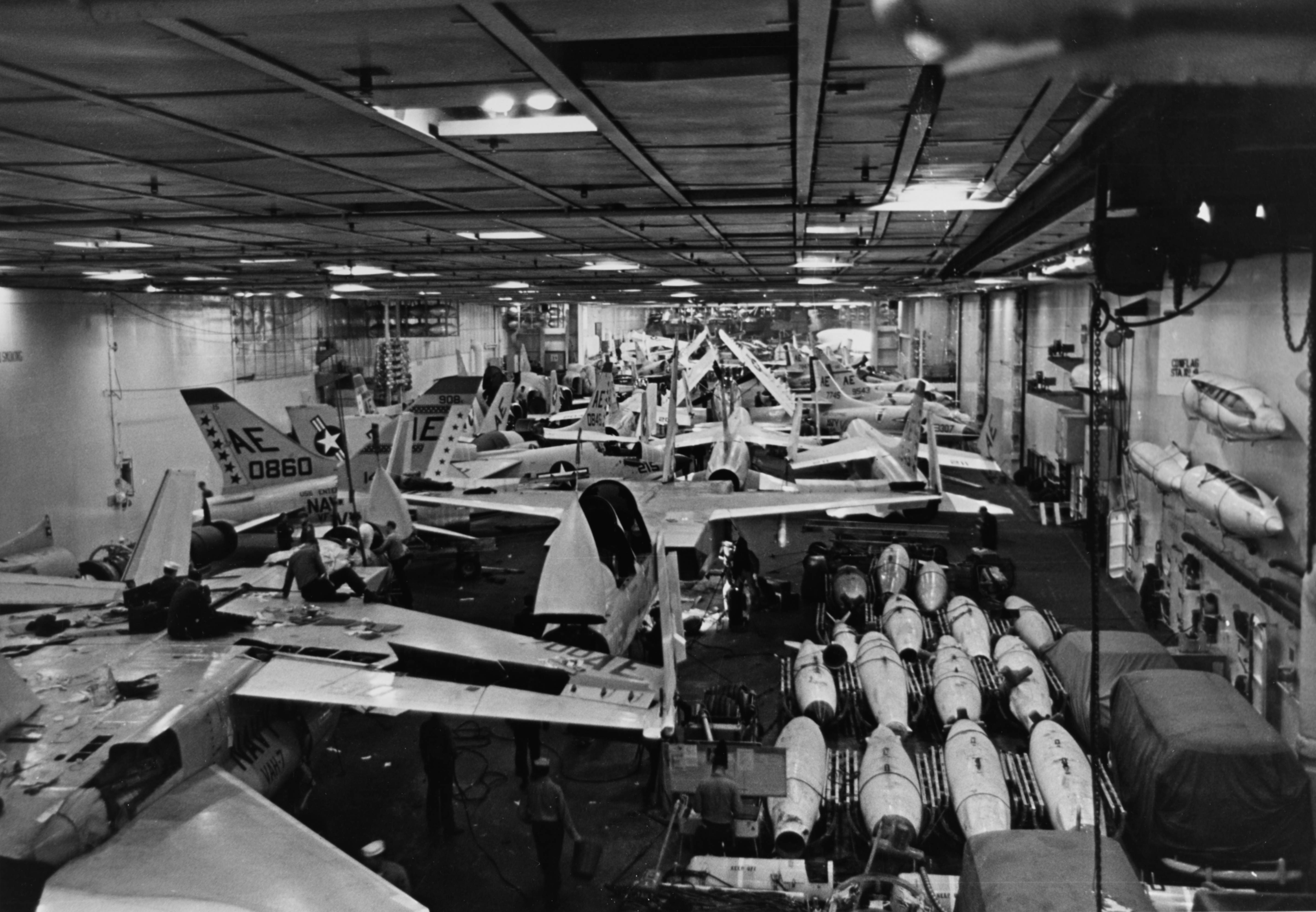 USS Enterprise (CVAN-65): Scene on the carrier's hangar deck, taken during Operation "Sea Orbit", 15 September 1964. Aircraft seen include North American A-5A Vigilante heavy attack planes (including BuNo 146700, at left, undergoing maintenance); Vought F-8E Crusader fighters; Douglas A-4C Skyhawk light attack planes (including BuNo 147745 and 149543) and McDonnell F-4B Phantom II fighters.